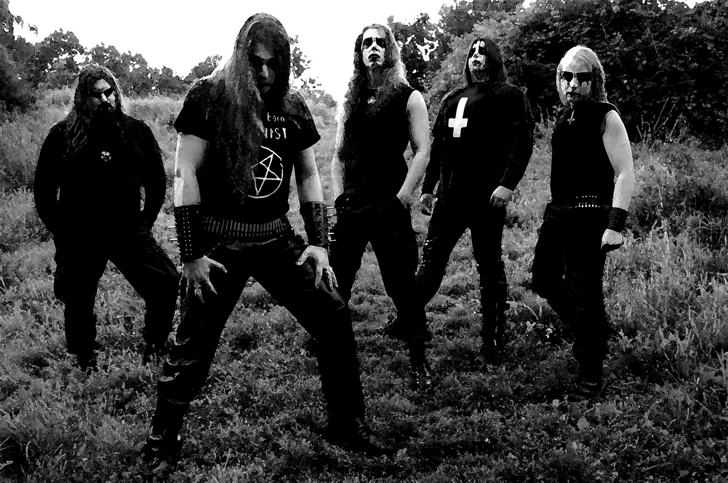 AEBA Black Metal Germany